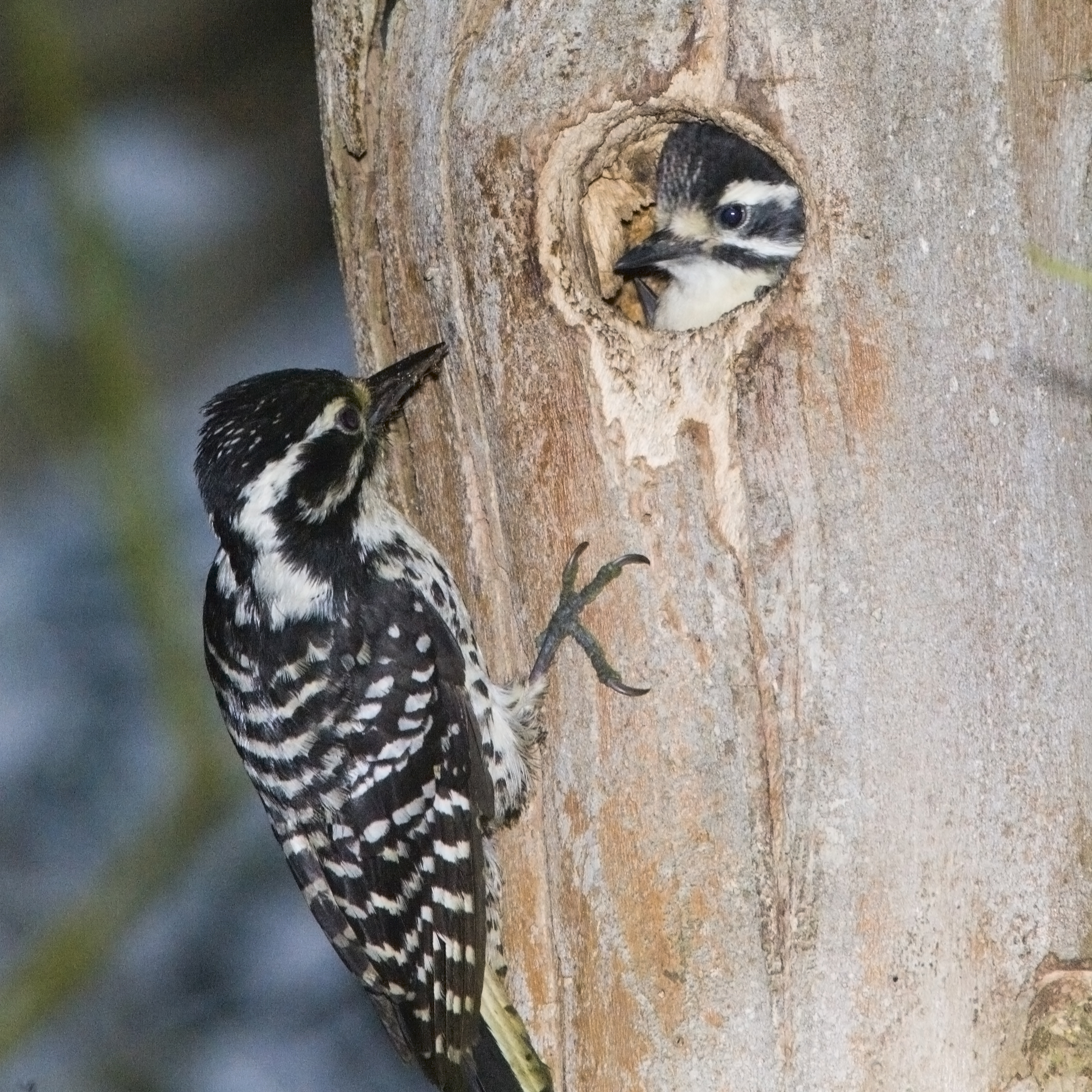 Nuttall's Woodpecker (Picoides nuttallii) in the Morro Bay "Heron Rookery" in Morro Bay, CA, 23 may 2007 – shot with a Canon 5D and 600mm IS lens on a sturdy tripod – with tele-extenders as noted. Overcast day, used Better Beamer flash on many of these shots. Photo by Mike Baird, .